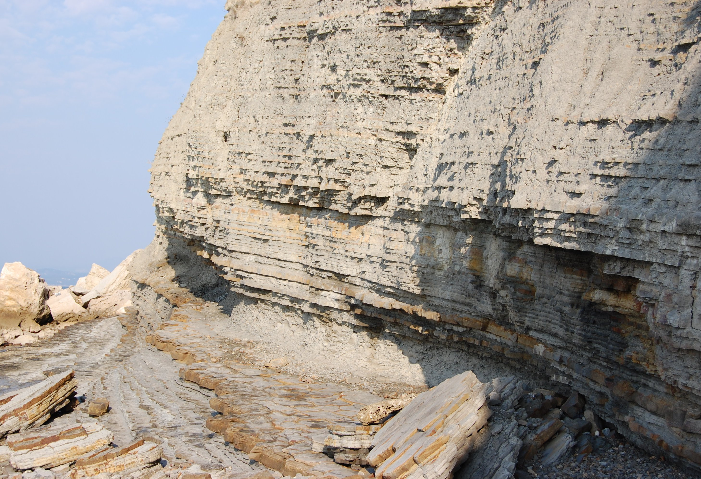 Strunjan-cliffs